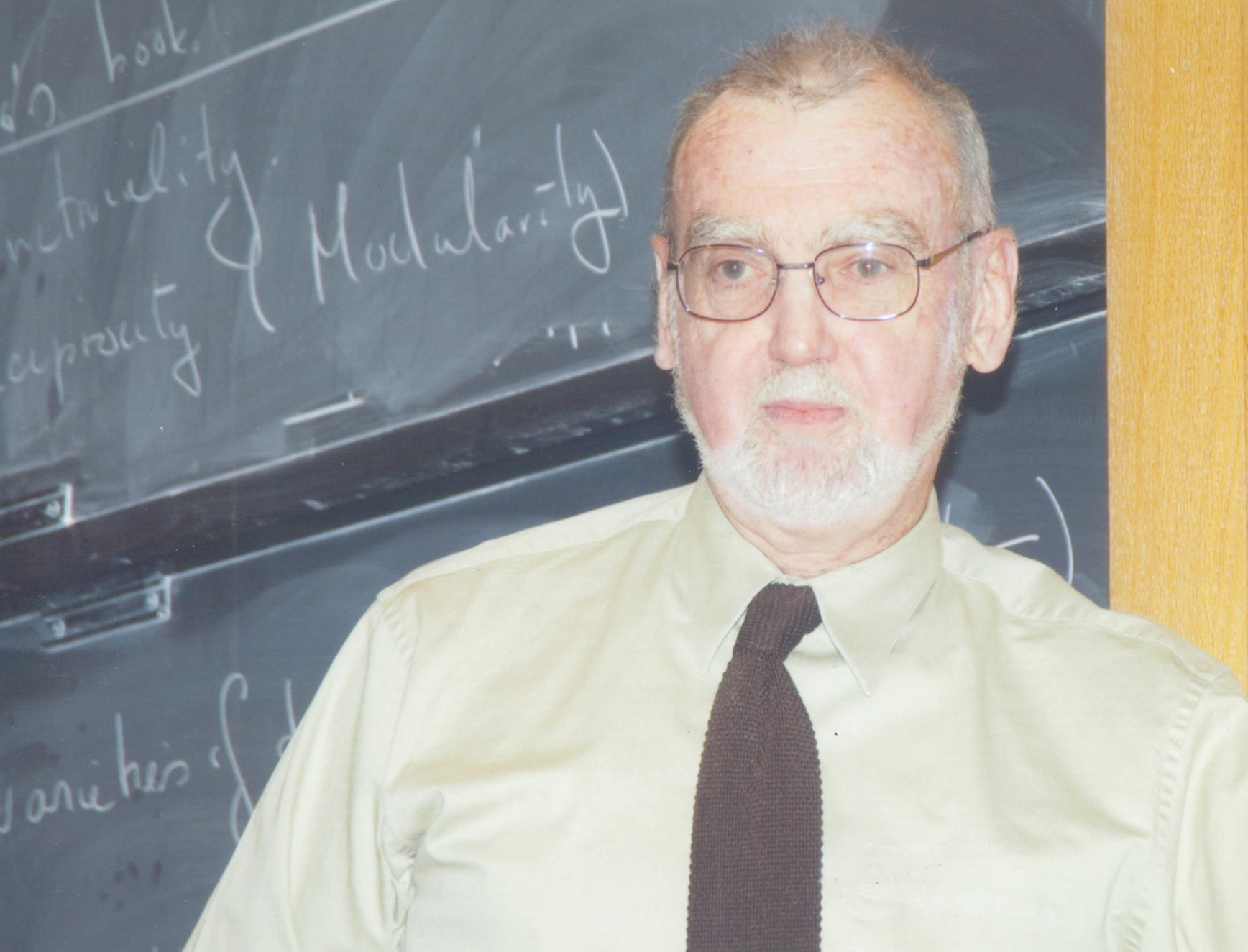 Photo of professor Robert Phelan Langlands (IAS, United States), holder of a number of scientific awards